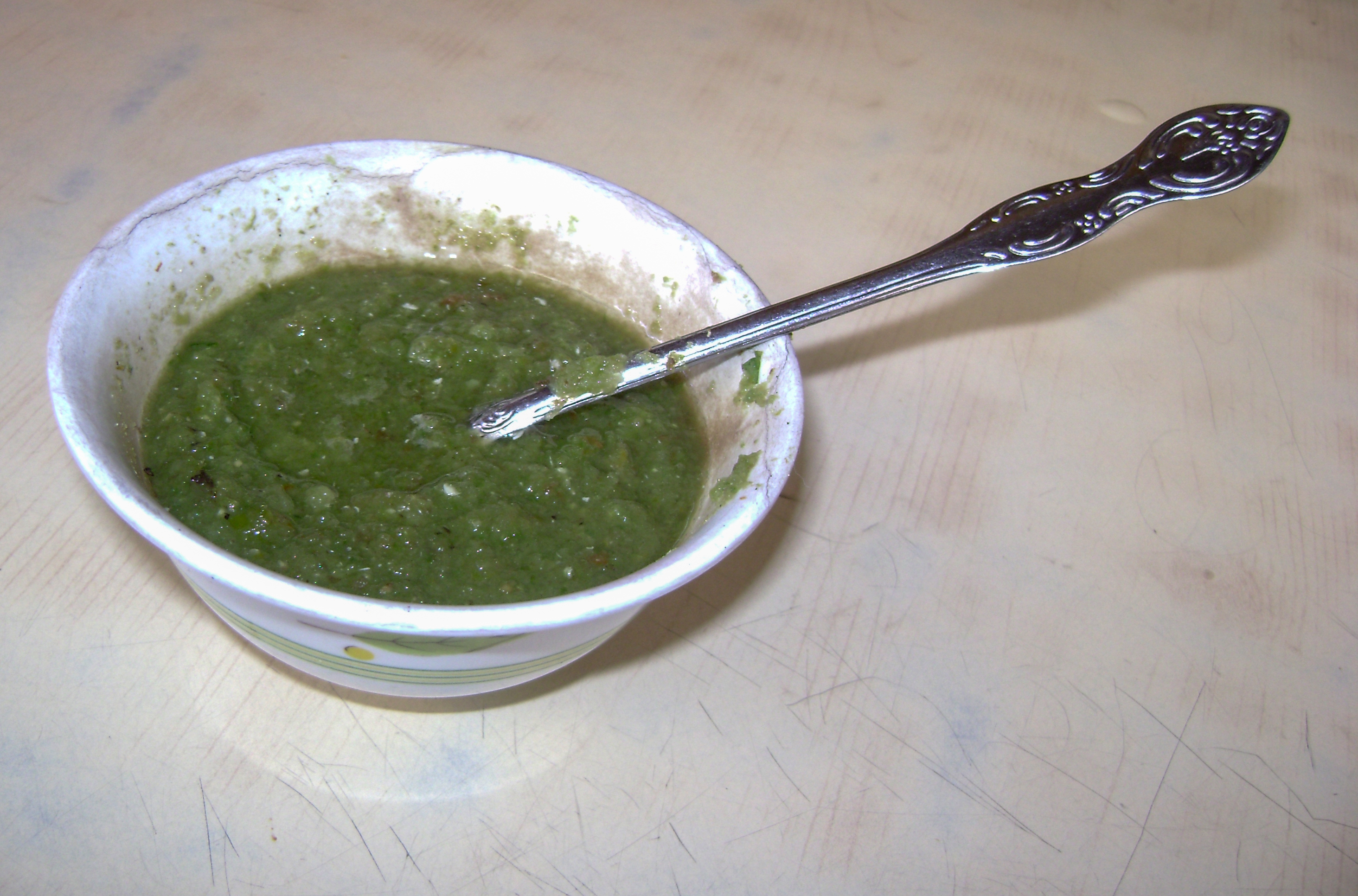 Green chili sauce served at a market in the city of Huaraz (Ancash-Perú)